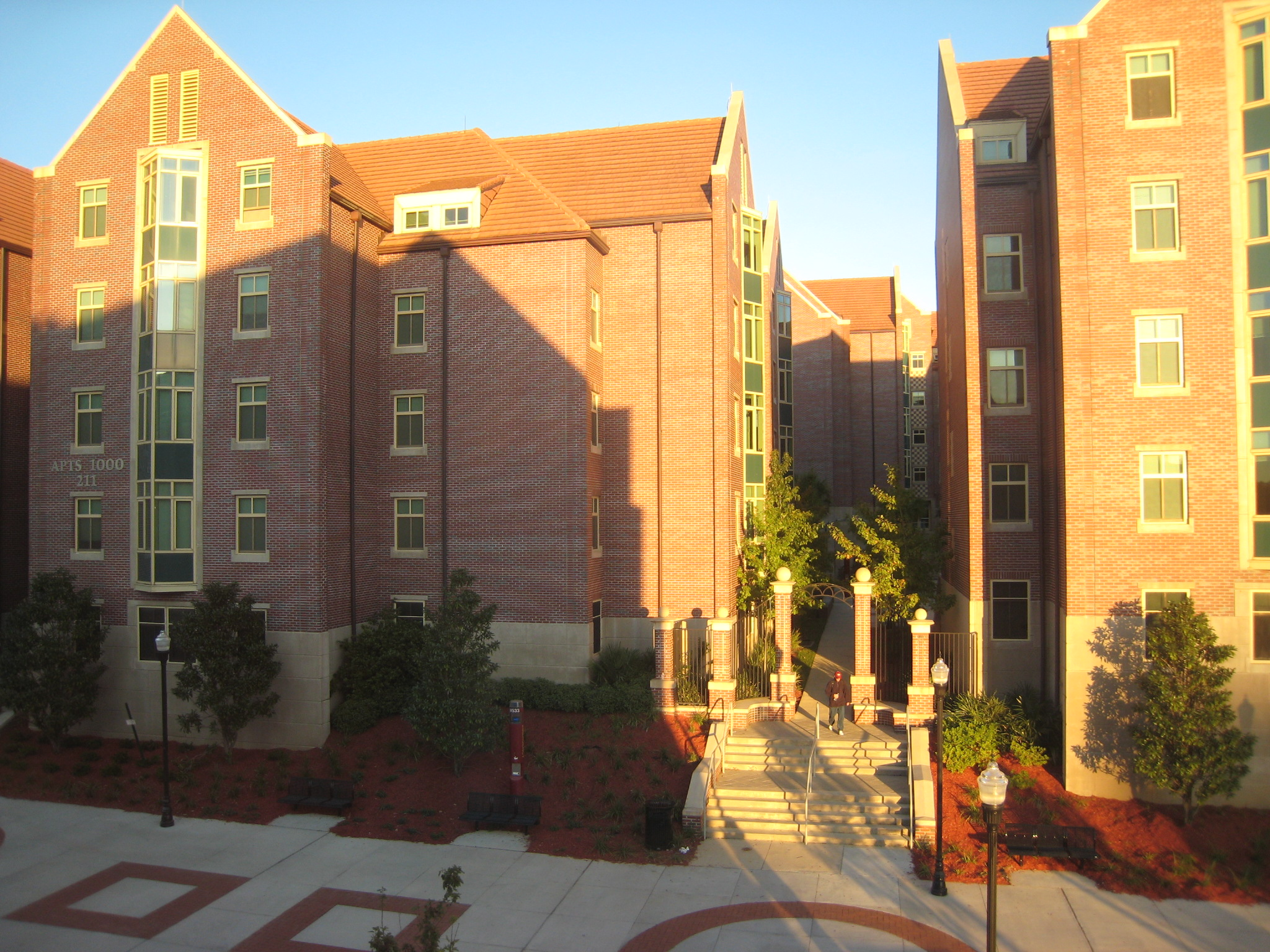 Ragans Hall, Florida State University